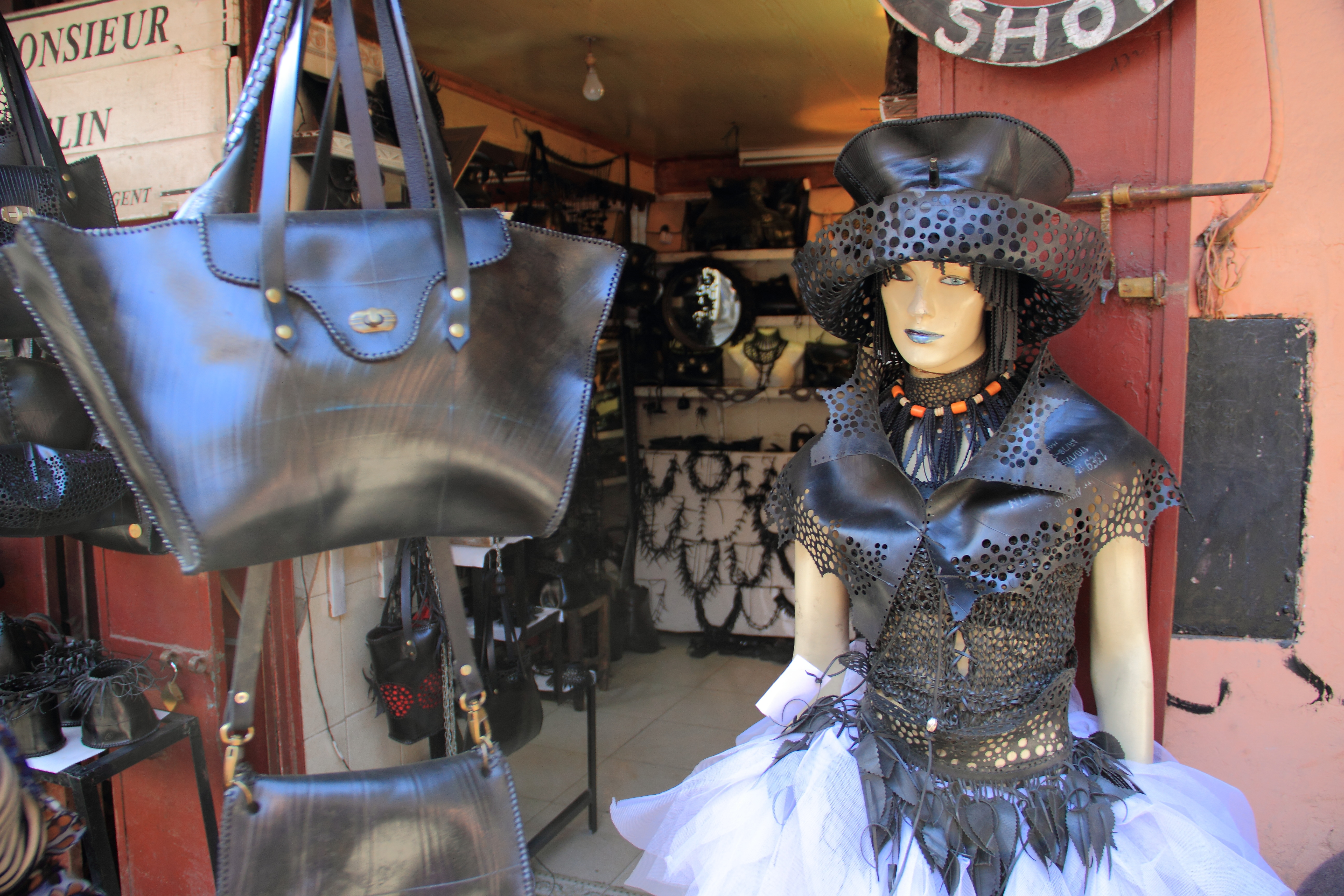 A craftshop in the souq of Marrakech sells arts and crafts made of old car tires.